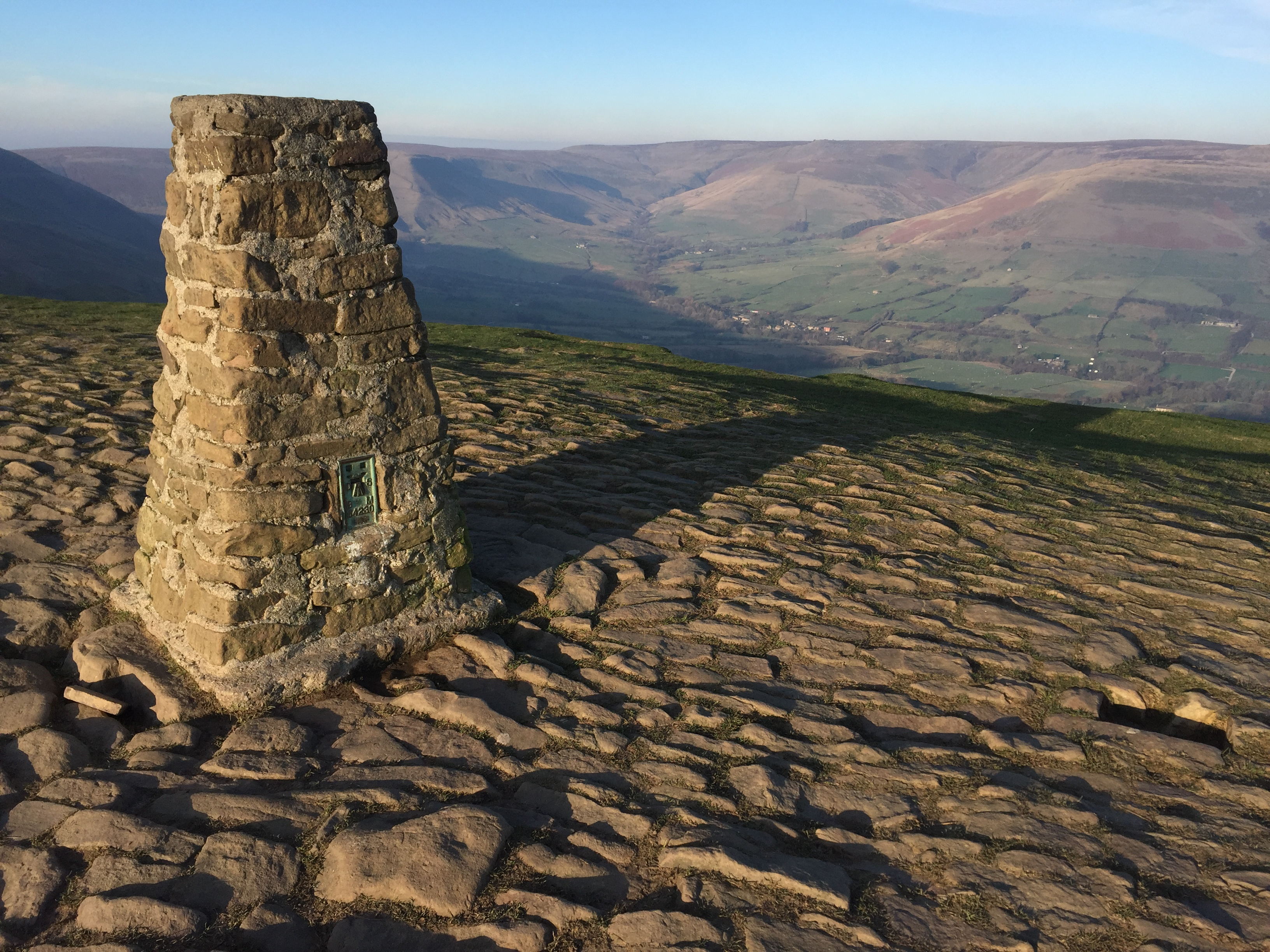 A trigonometrical station Nam Tor Derbyshire